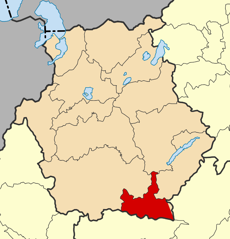 Locator map for Deskati municipality in Greek region West Macedonia (2011)